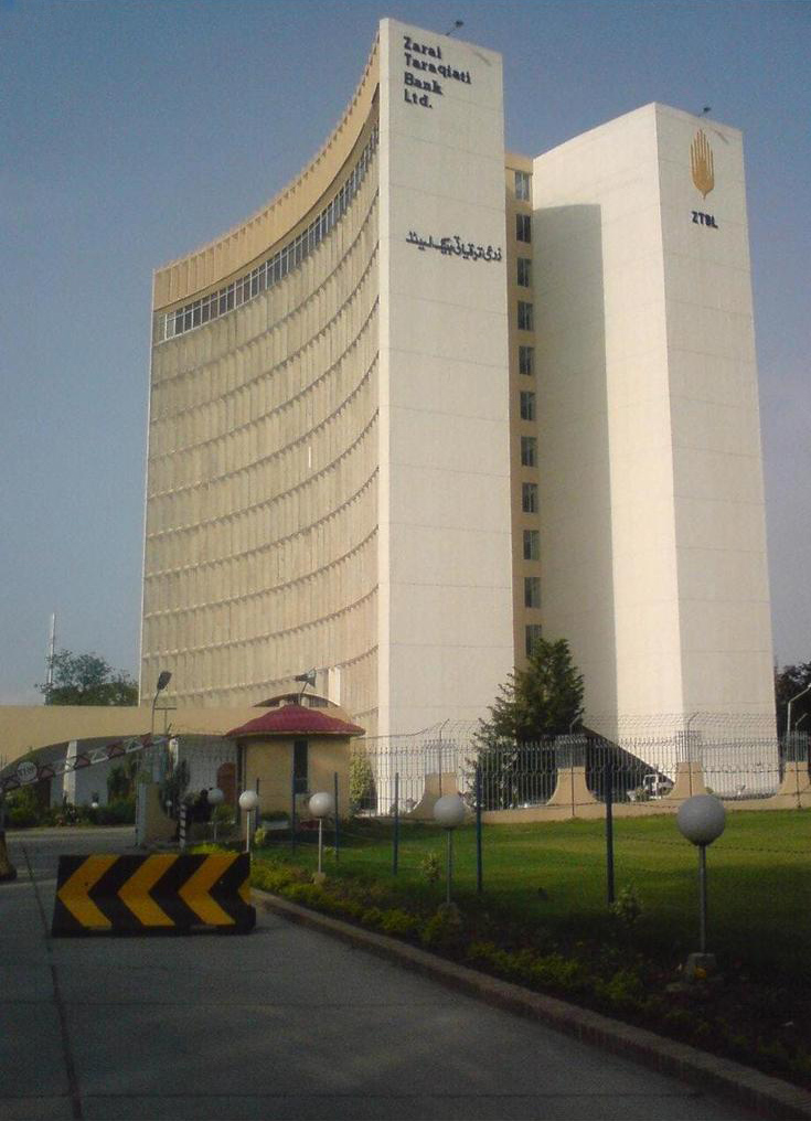 I created this work entire myself